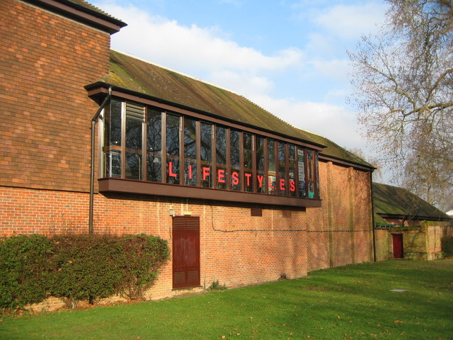 Lifestyles Health Club Part of the Court Garden Leisure Complex. The windows here provide the keep fit fanatics a perfect view of the Thames.